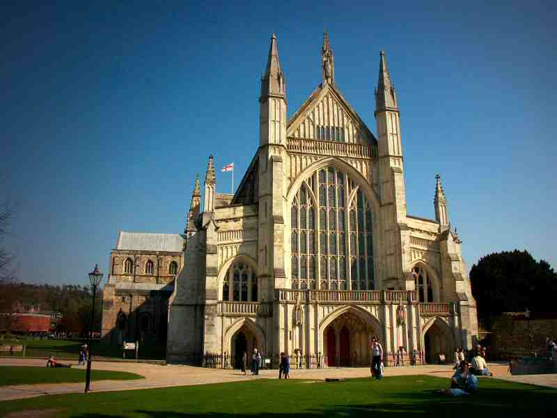 Winchester Cathedral, Winchester, England